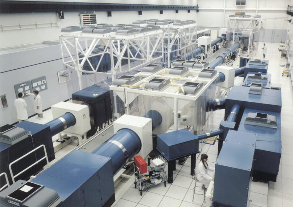 The Beamlet laser, a scientific prototype of one of the NIF’s 192 beamlines, that has been operating at LLNL since 1994.